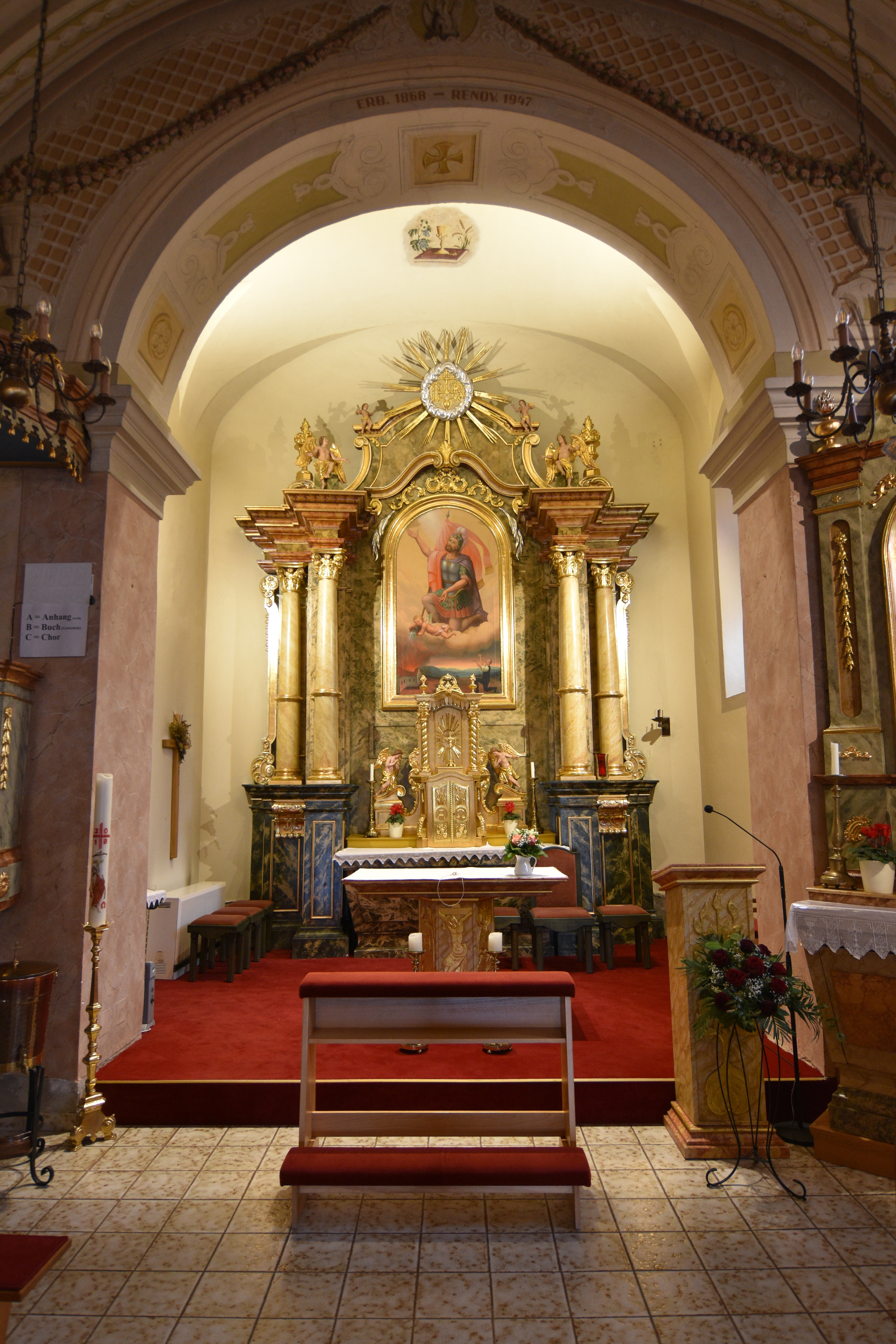 Church Tobaj